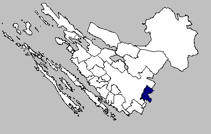 Self-made map of the Lišane Ostrovičke municipality within the Zadar County.